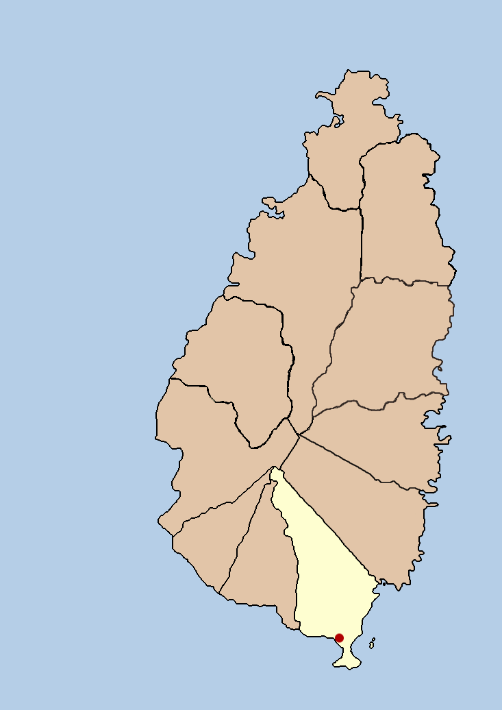 this is a political map showing the quarter of Vieux Fort on the island nation of Santa Lucia. I created it myself by using the GIMP to trace a public domain map that i found at the Perry-Castañeda Library Map Collection.